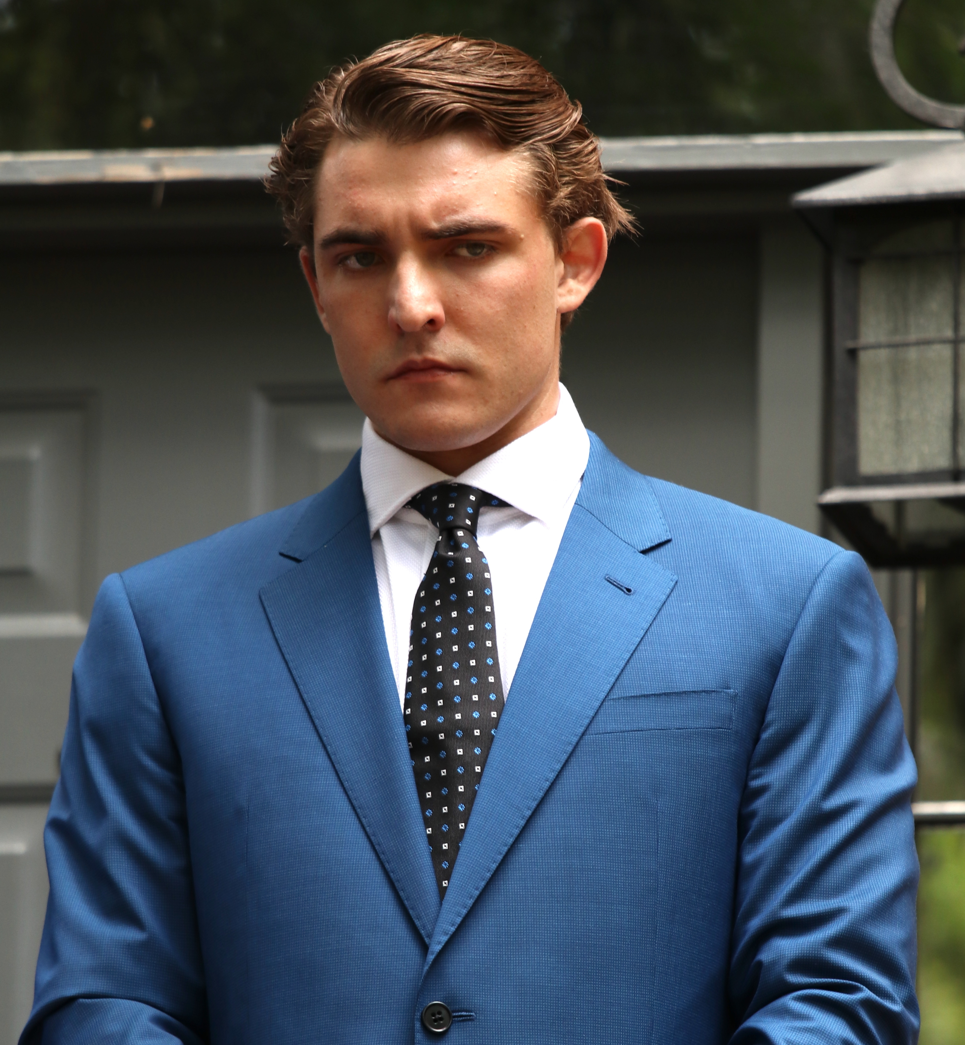 Jacob Wohl photographed on August 6, 2020